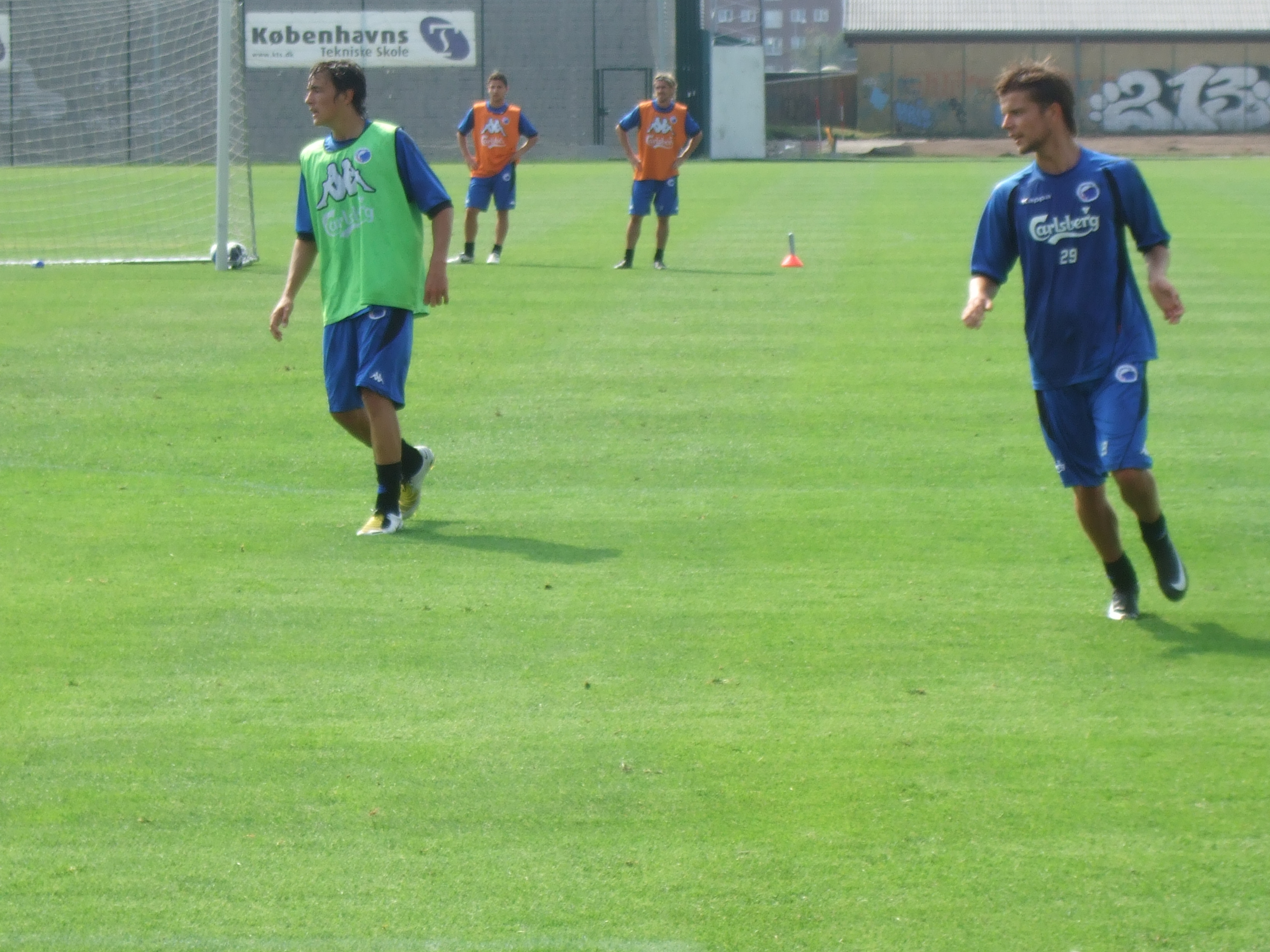 F.C. København defender Danni Jensen (right) during practice August 7th 2008. Picture is taken at the FCK training grounds at Peter Bangs Vej.